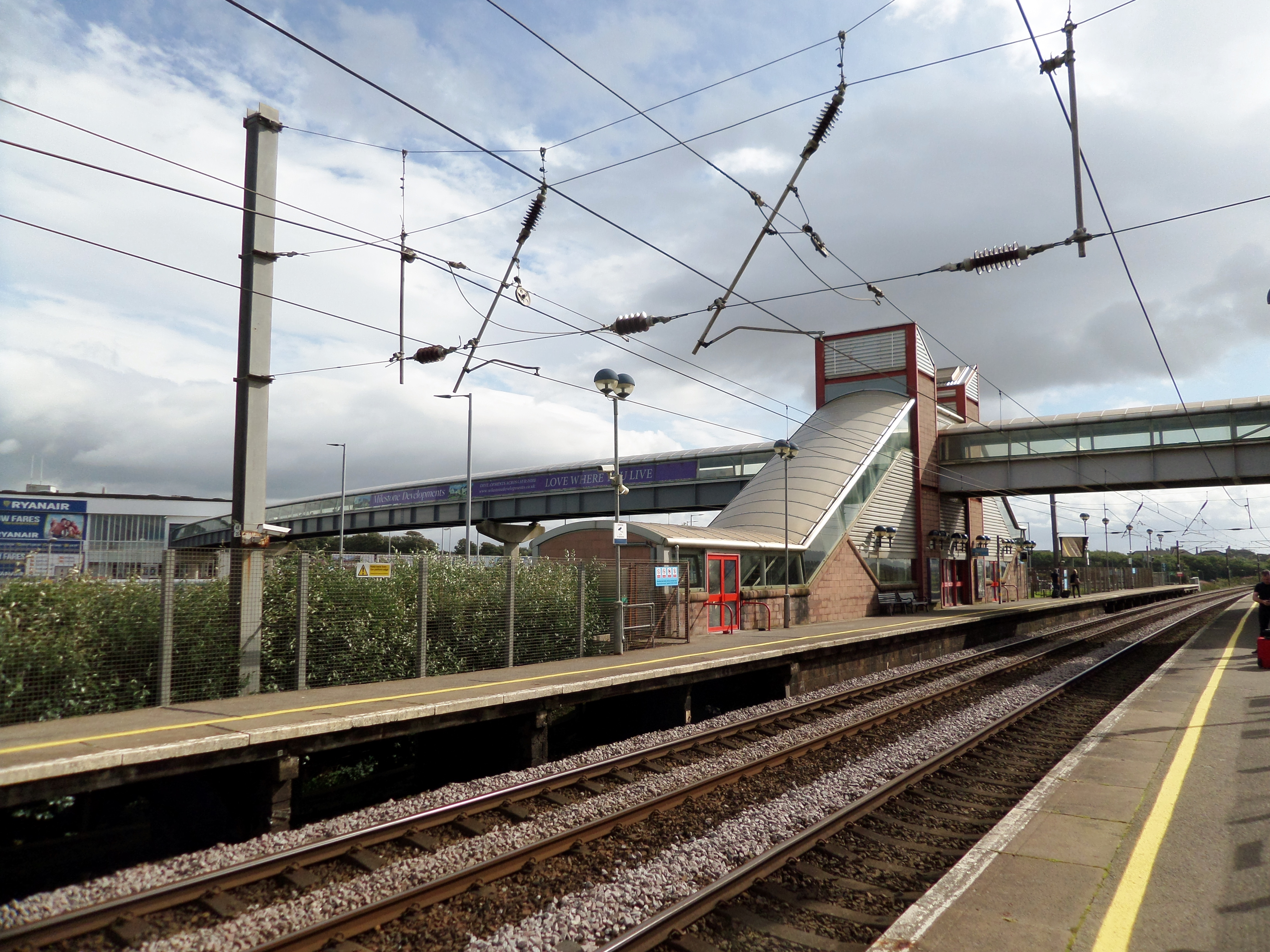 Prestwick International Airport railway station - view towards Ayr with airport link overbridge.